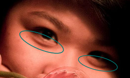 Example of eye bags